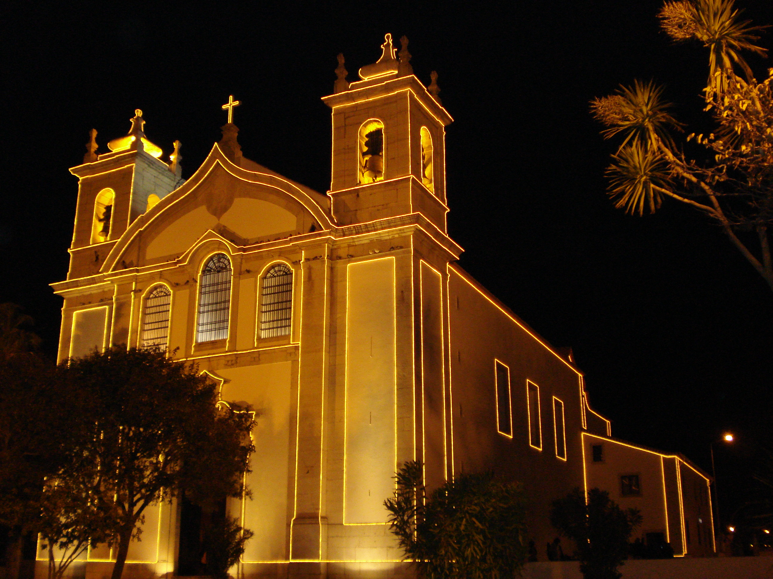 Church of São Domingos de Rana, Portugal.